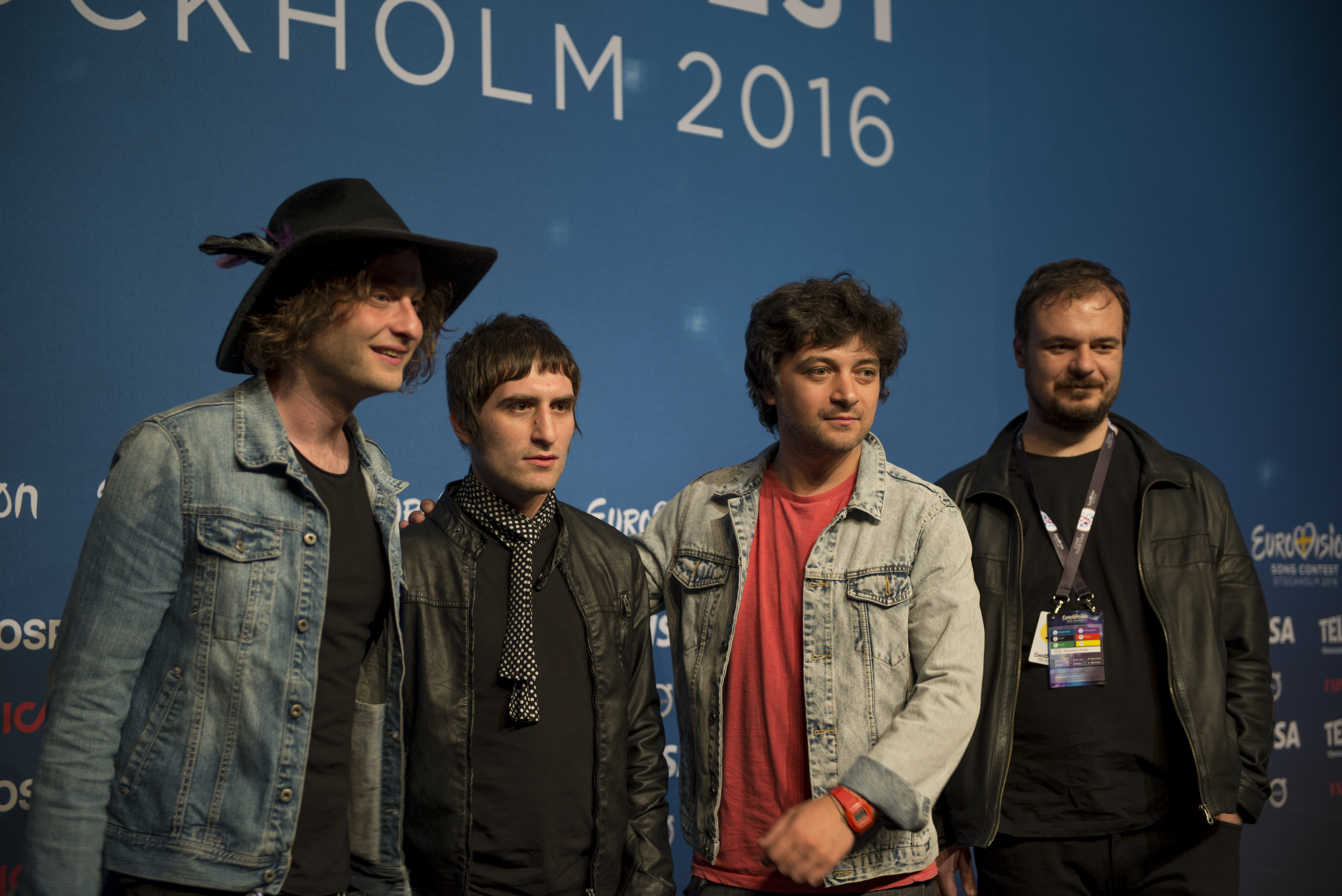 Nika Kocharov & Young Georgian Lolitaz at a Meet & Greet during the Eurovision Song Contest 2016 Stockholm. (Help translate this text)